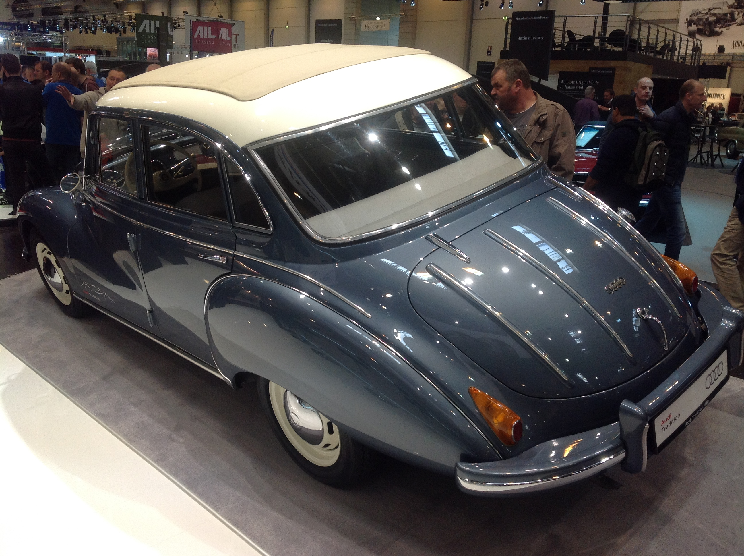 This car is an evolution of the F91 which itself was derived from the F9 Prototype of 1941. A parallel car was built by IFA first in Zwickau, then Eisenach, called the F9. The underpinnings of the IFA F9 were used in the first Wartburg.